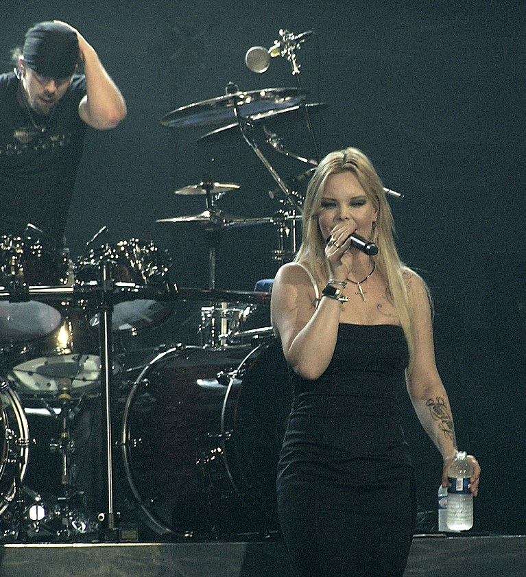 Nightwish live in Zagreb, Croatia